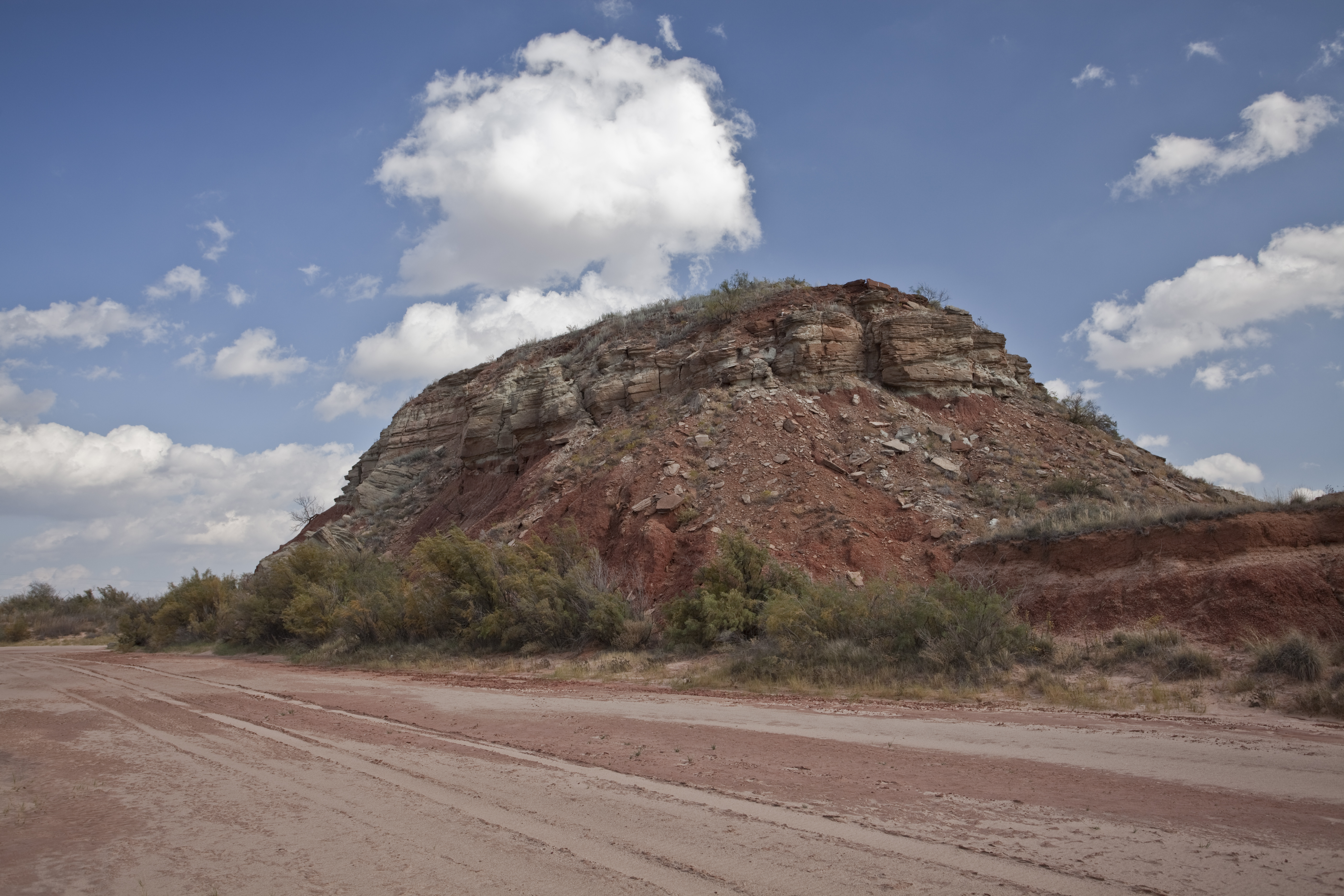 Duffy's Peak in Garza County, Texas, with the dry stream bed of the Salt Fork Brazos River in the foreground.